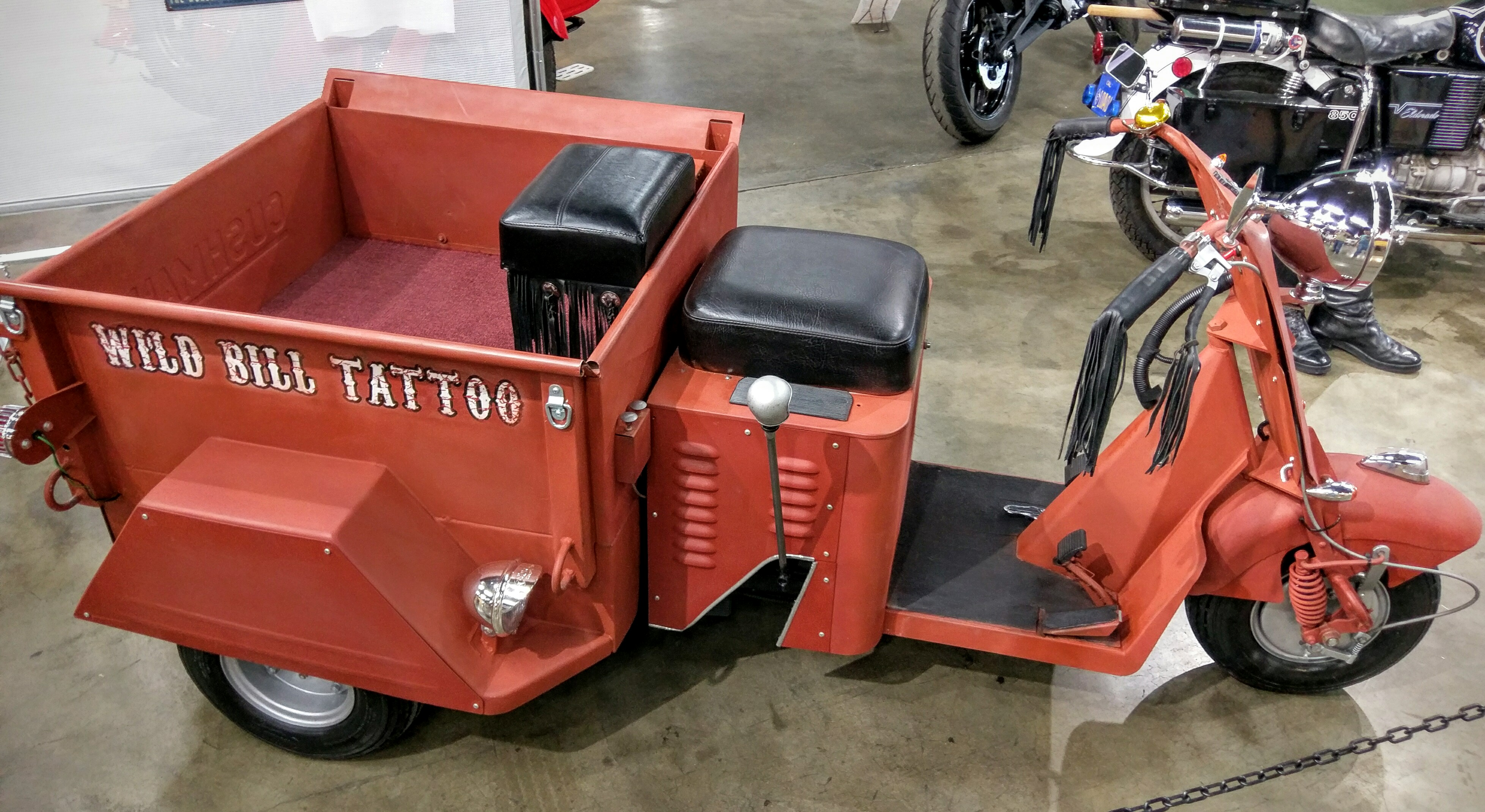 On display at the California Automobile Museum. Photo by Jim Heaphy.